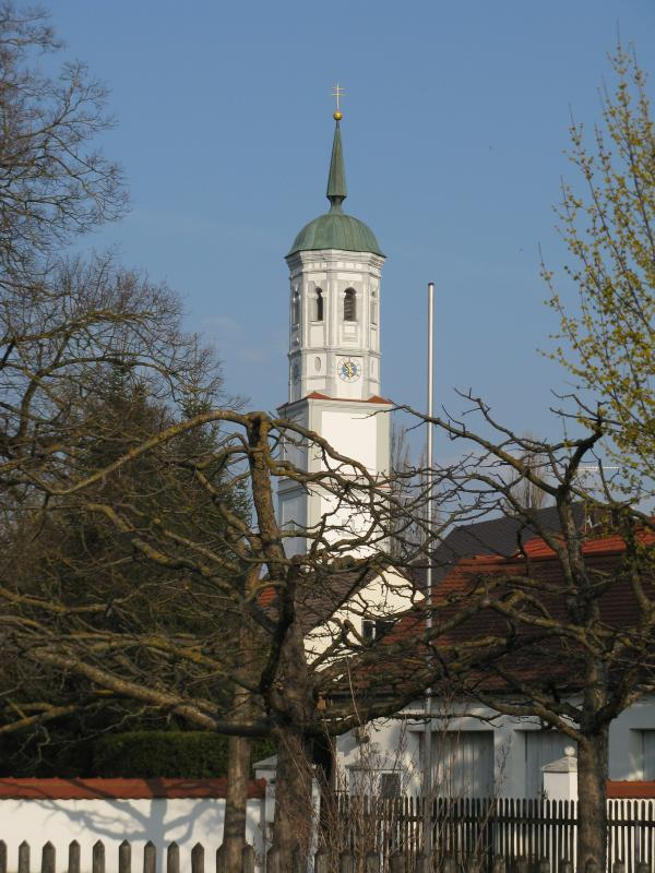 Church St. Jakob in Mammendorf, Bavaria, Germany